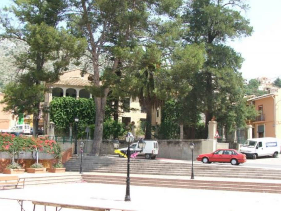 "Señoría", Sanet and Negrals